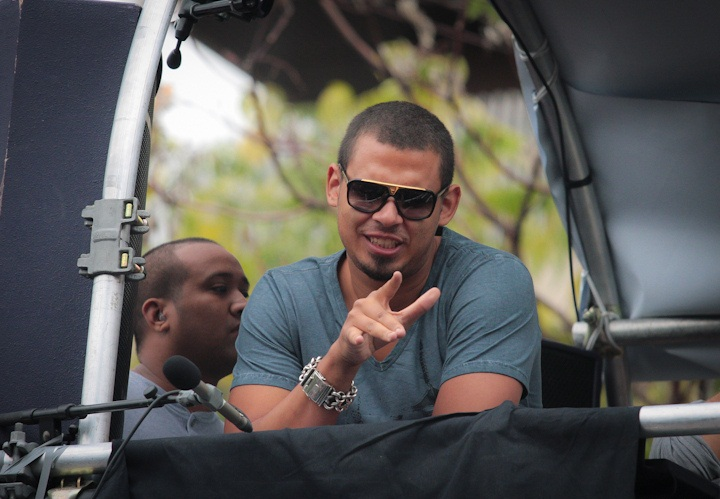 A close up of the Dutch DJ Afrojack